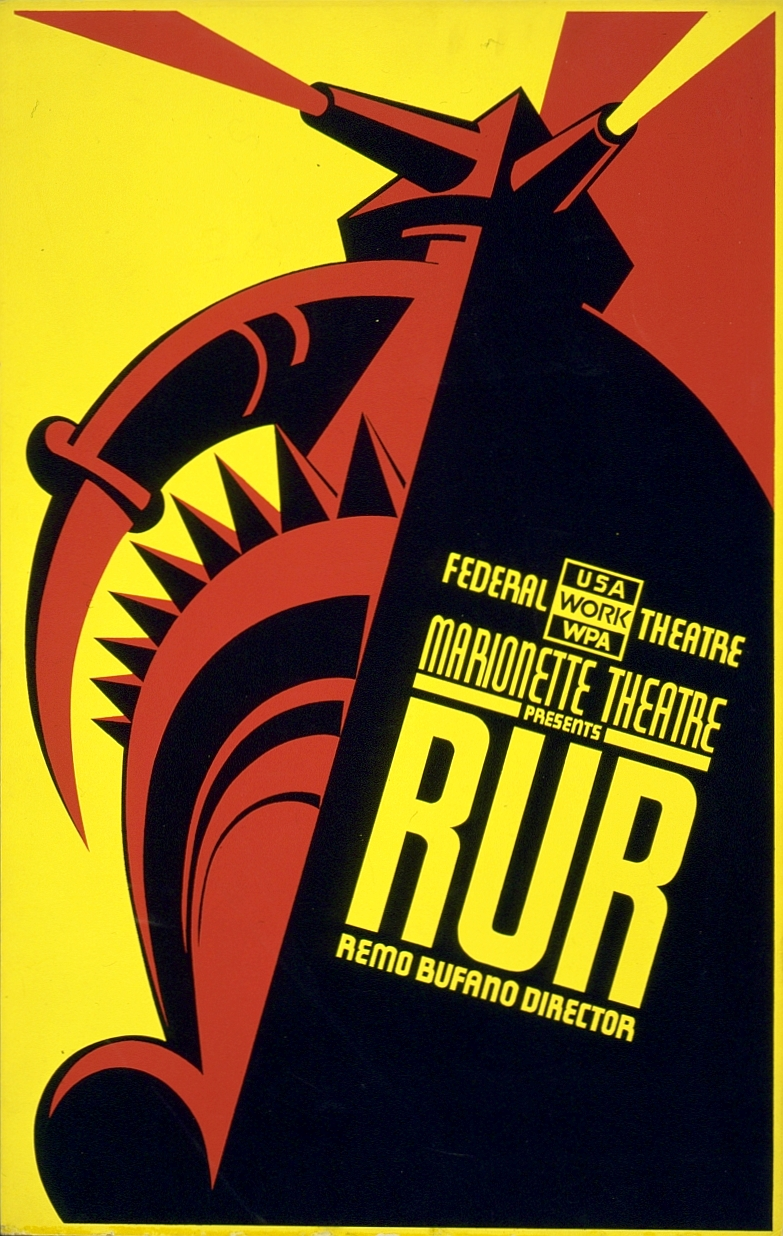 Color silkscreen poster for Federal Theatre Project presentation of "R.U.R. (Rossum's Universal Robots)" by Karel Čapek (1890-1935). "Marionette Theatre presents RUR. Remo Bufano director."